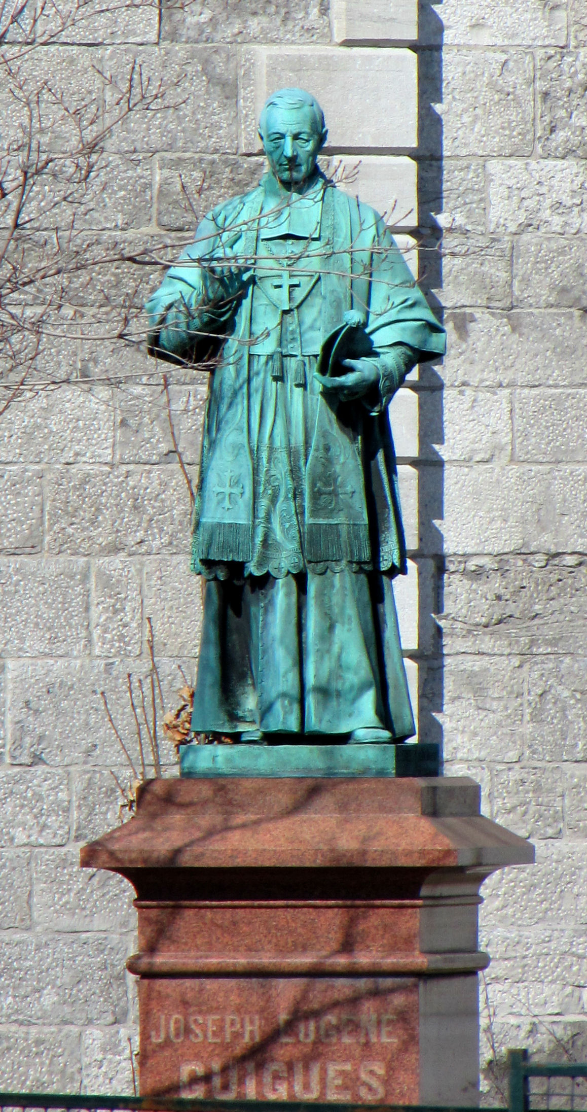 Bishop Joseph Eugene Guigues, statue, Notre-Dame Cathedral Basilica, Ottawa, Ontario, Canada